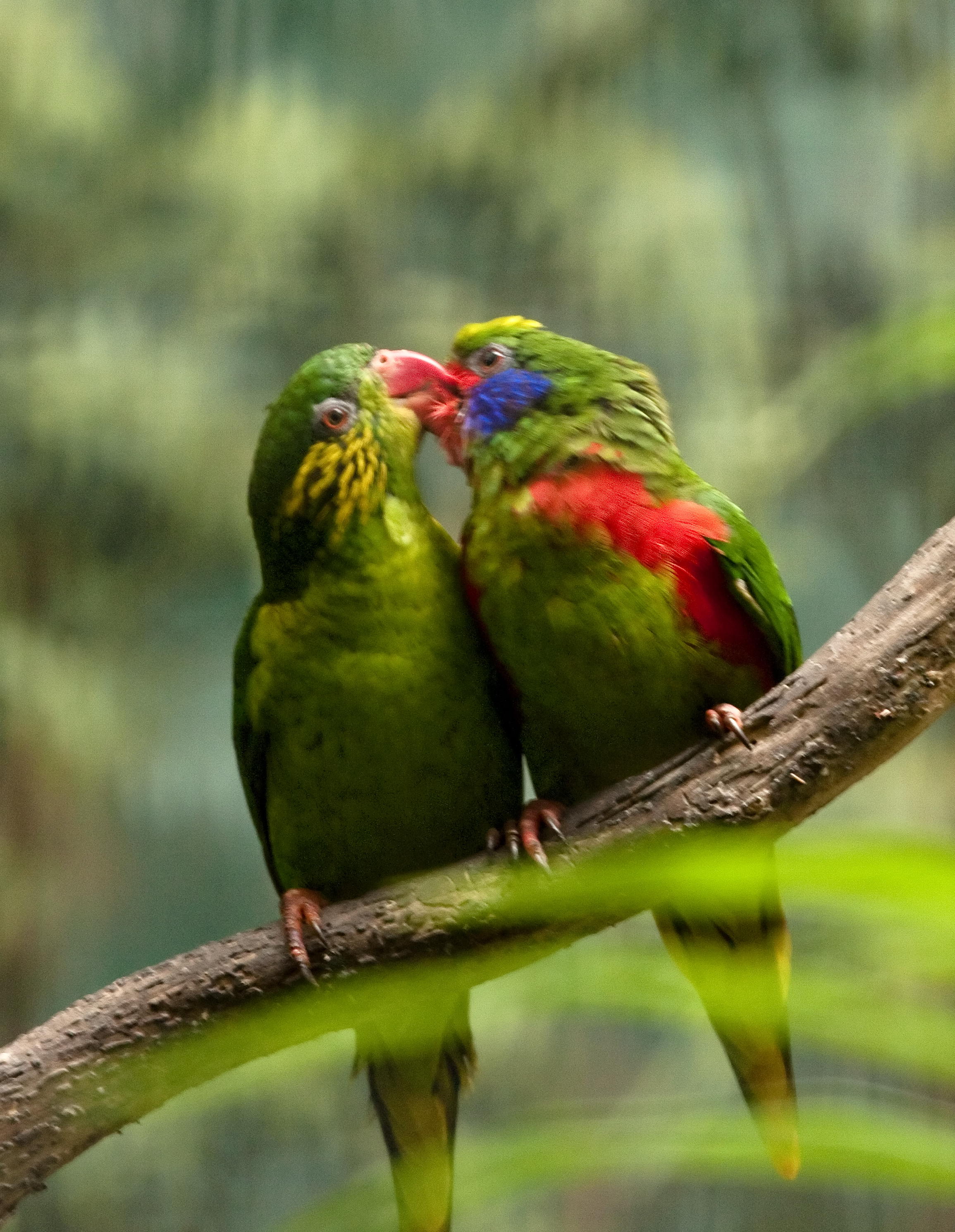 A pair of Red-flanked Lorikeets at Jurong Bird Park, Singapore.